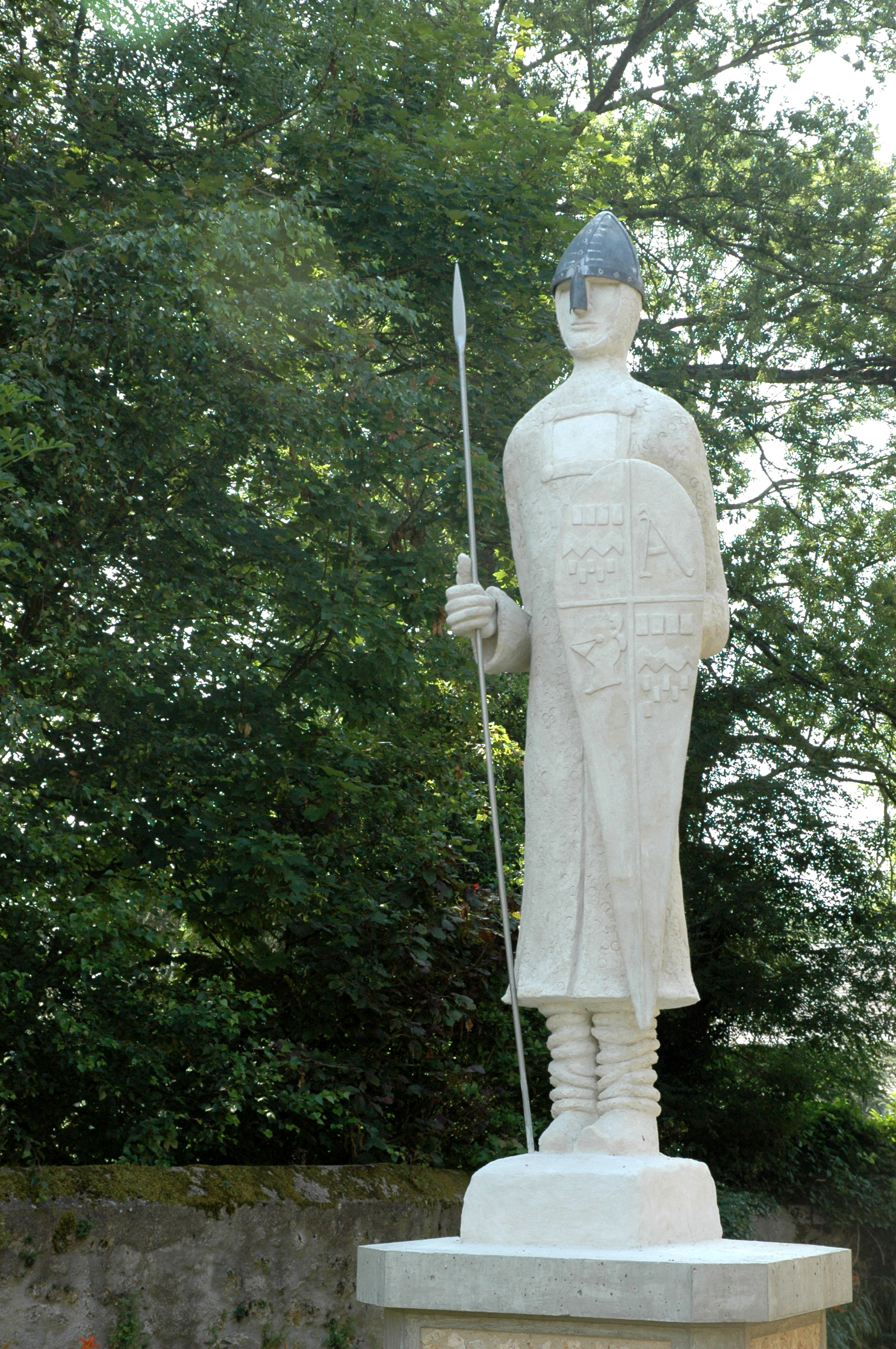 Photo of the statut of Gauthier d'Aincourt on the main square